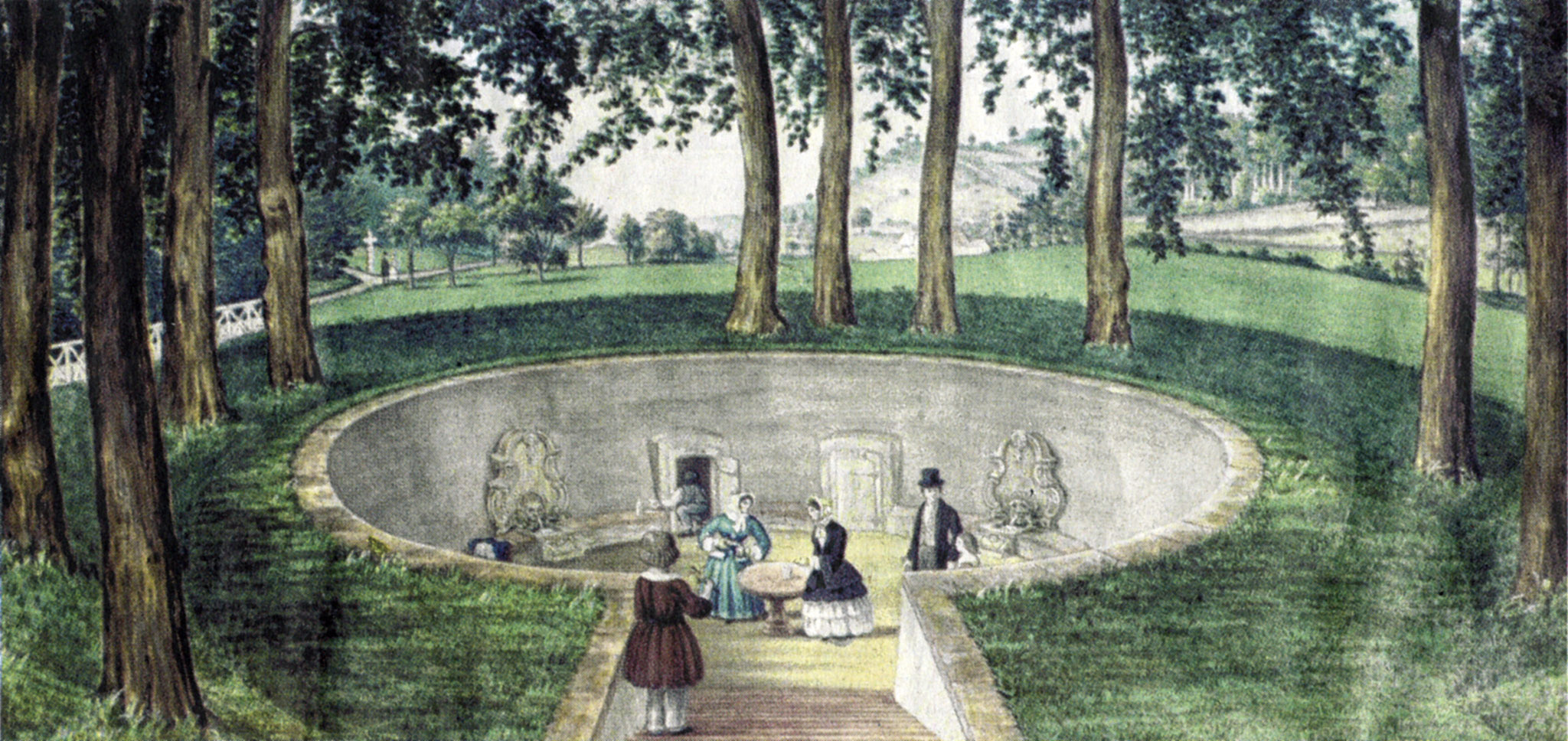 The "Goethe Brunnen" (Goethe Well) in Bensheim-Auerbach (Hesse, Germany), painted by Ernst August Schnittspahn